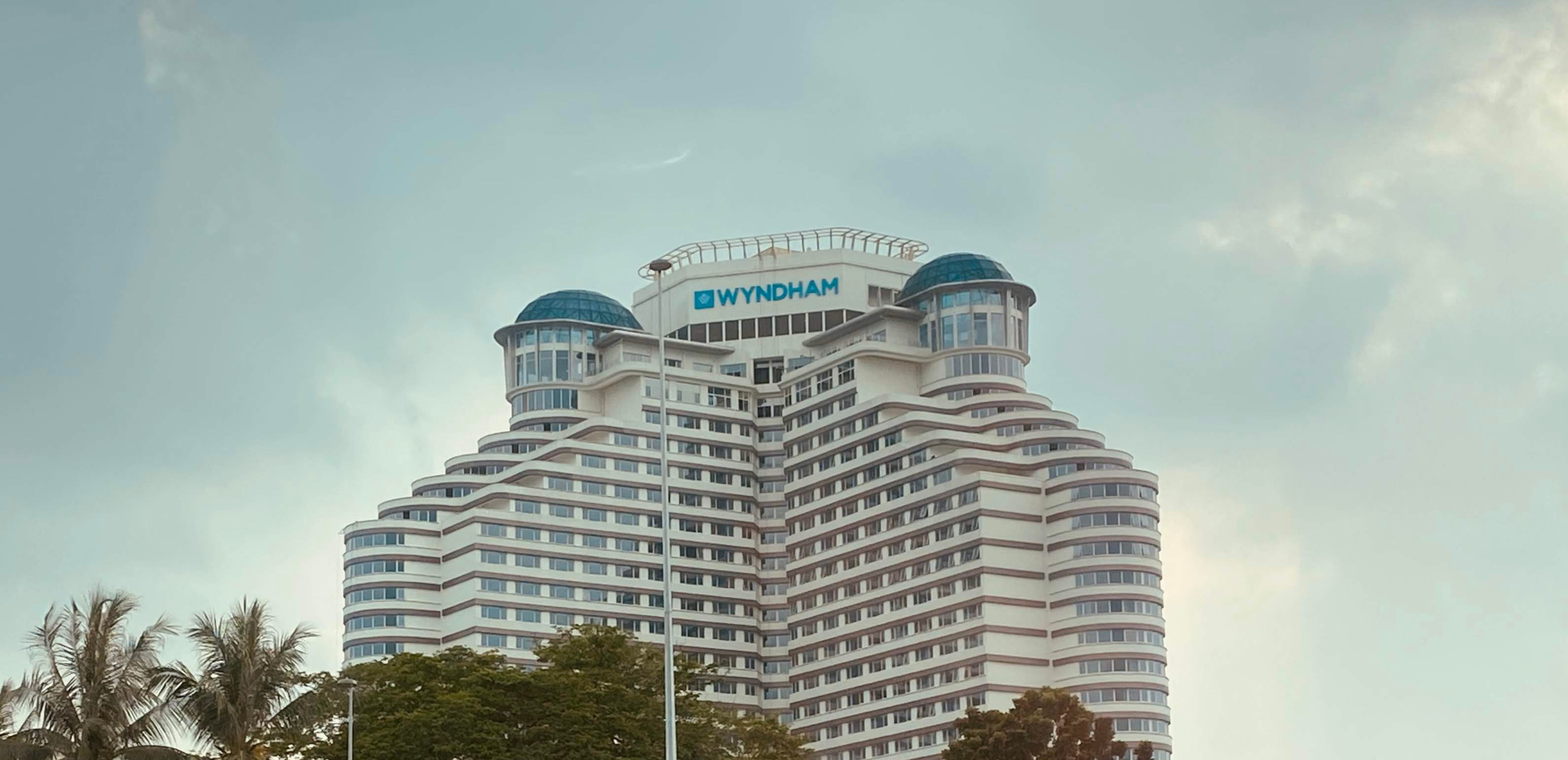 Wyndham Acmar Klang, as seen from Selat Klang Highway-Federal Highway junction.